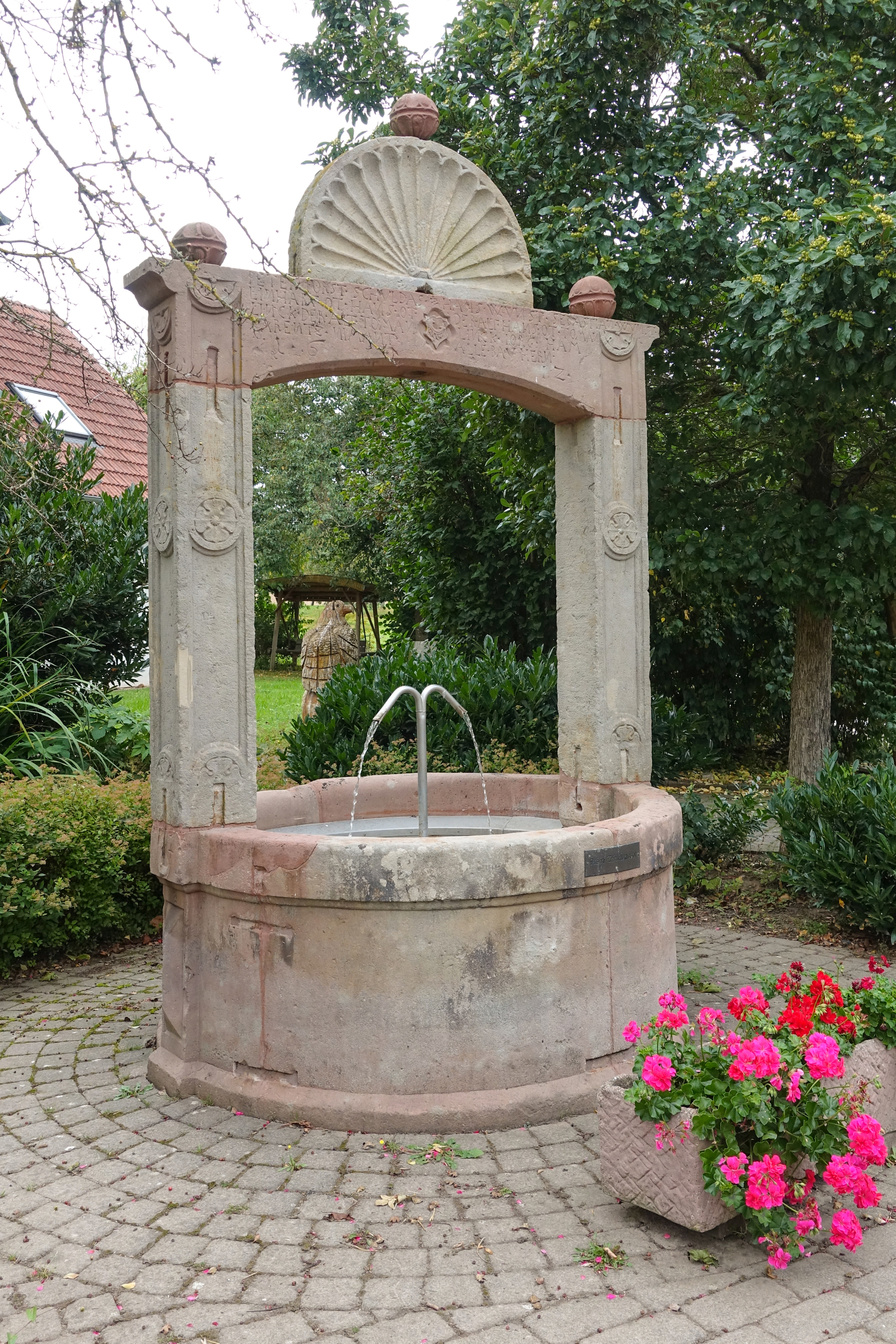 Historical water well in Rütschdorf (Germany), 1612